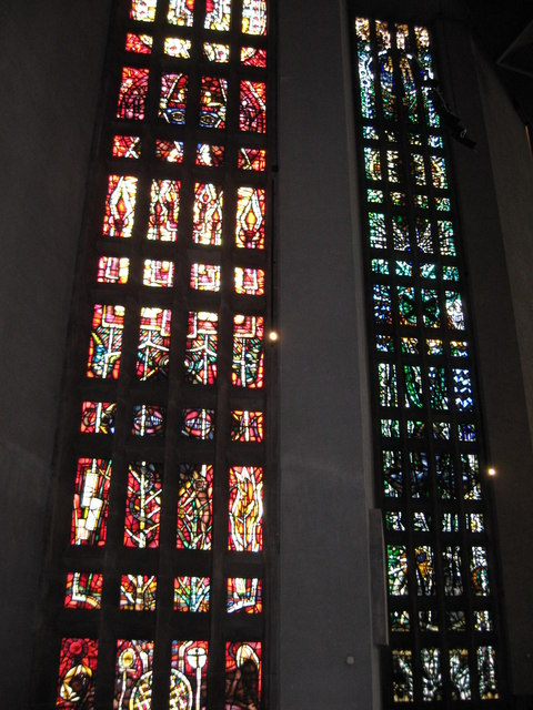 Coventry Cathedral 5. Panels of the nave windows are the work of Lawrence Lee, Keith New and Geoffrey Clarke. They are 22m(70 feet)high and the windows tell the story of human growth from birth through maturity and death to fulfilment, epitomized in the life of Jesus. The 10 windows are orientated eastwards so as to throw their light towards the high altar.